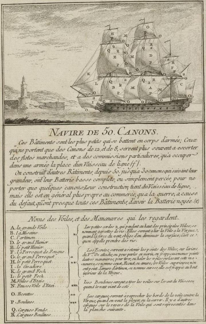 Ship of 50 guns. Text and drawings made ​​by Nicolas Ozanne, 1764.